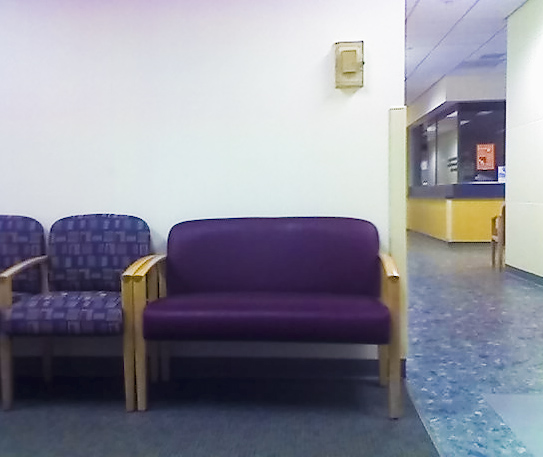 Edited on original image image:Saladeespera12.jpg uploaded by Qrc2006